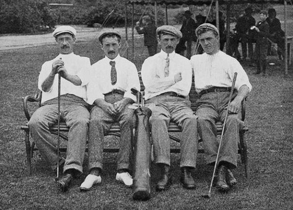 Isaac Mackie, Jack Hobens, Alex Ross, and George Thomson at the 1904 U.S. Open, Glen View Golf Club, Illinois